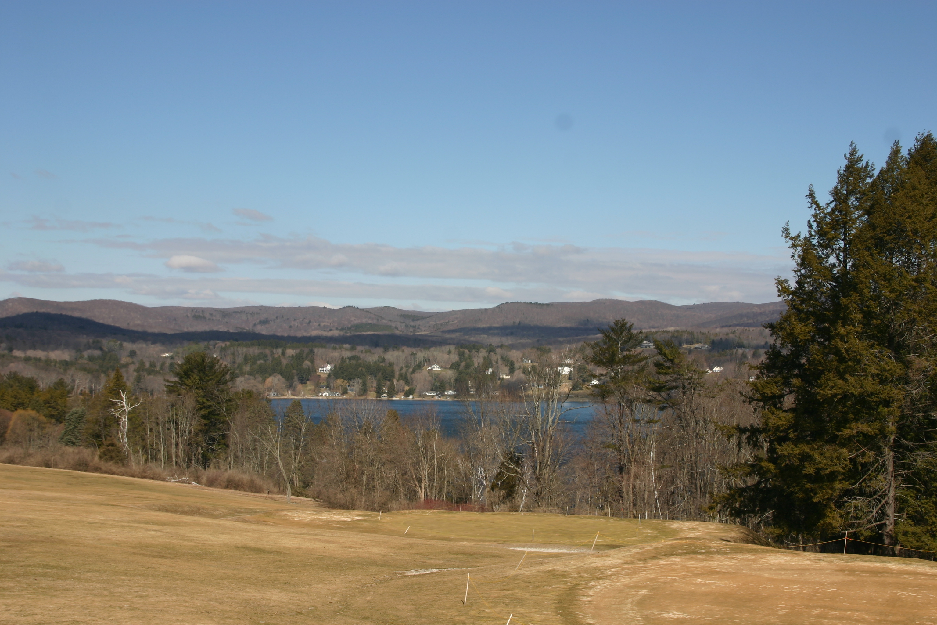 The Litchfield Hills and Lake Wononscopomuc seen from the grounds of Hotchkiss School, Lakeville, CT.